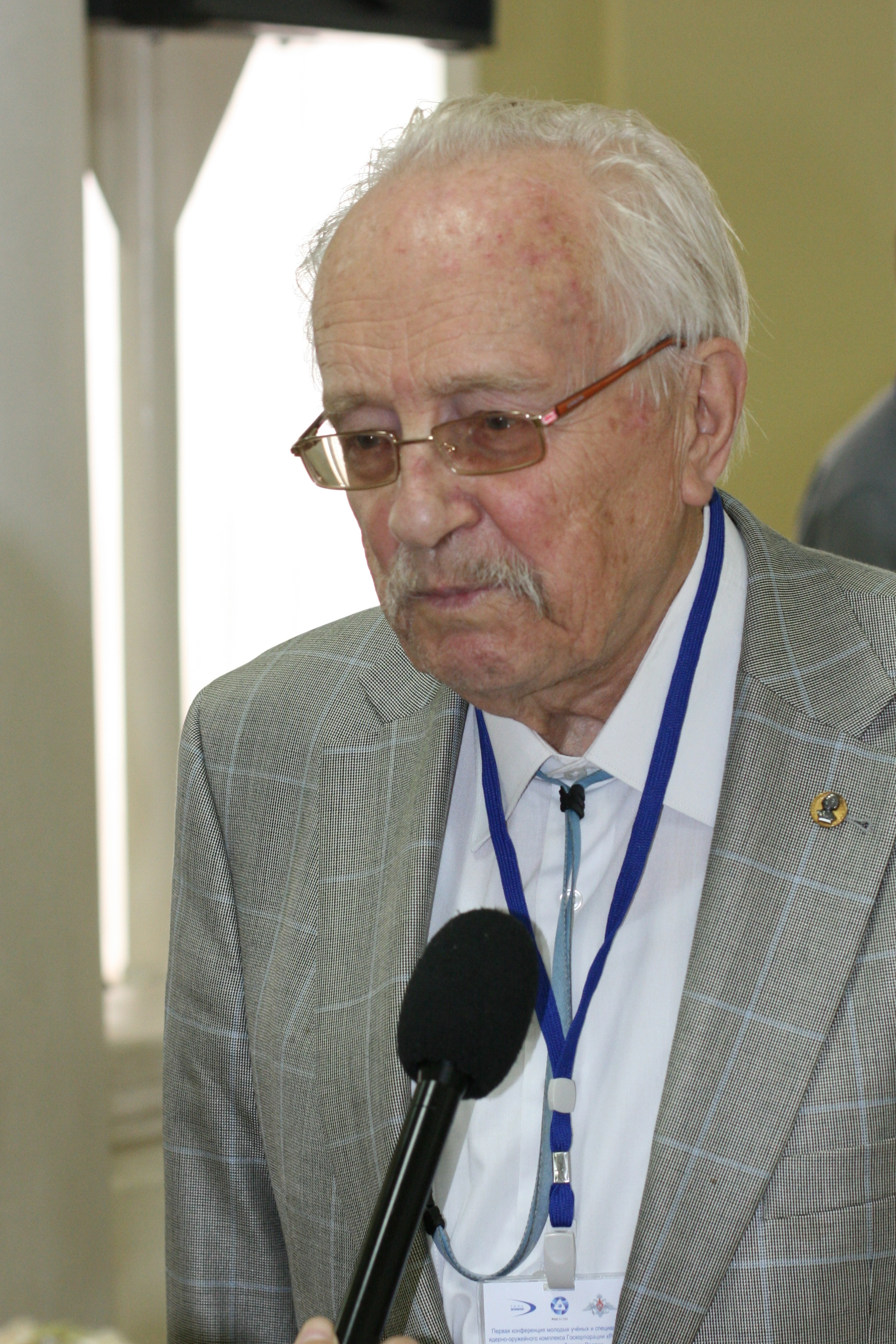 Dmitri Shirkov, Russian physicist, participant of the first USSR hydrogen bomb test